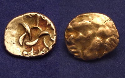 Celtic gold stater from the Corieltauvi tribe. South Ferriby type.